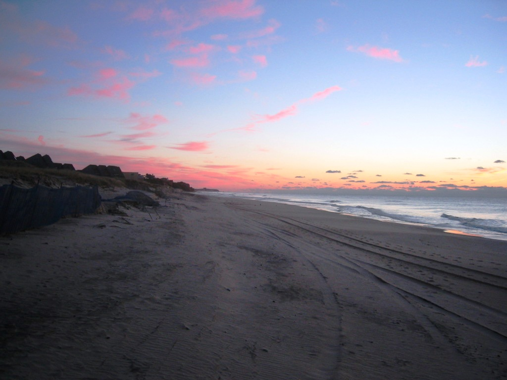 Sunrise in Montauk (East Hampton), New York, the easternmost point of New York State.Montauk, NY